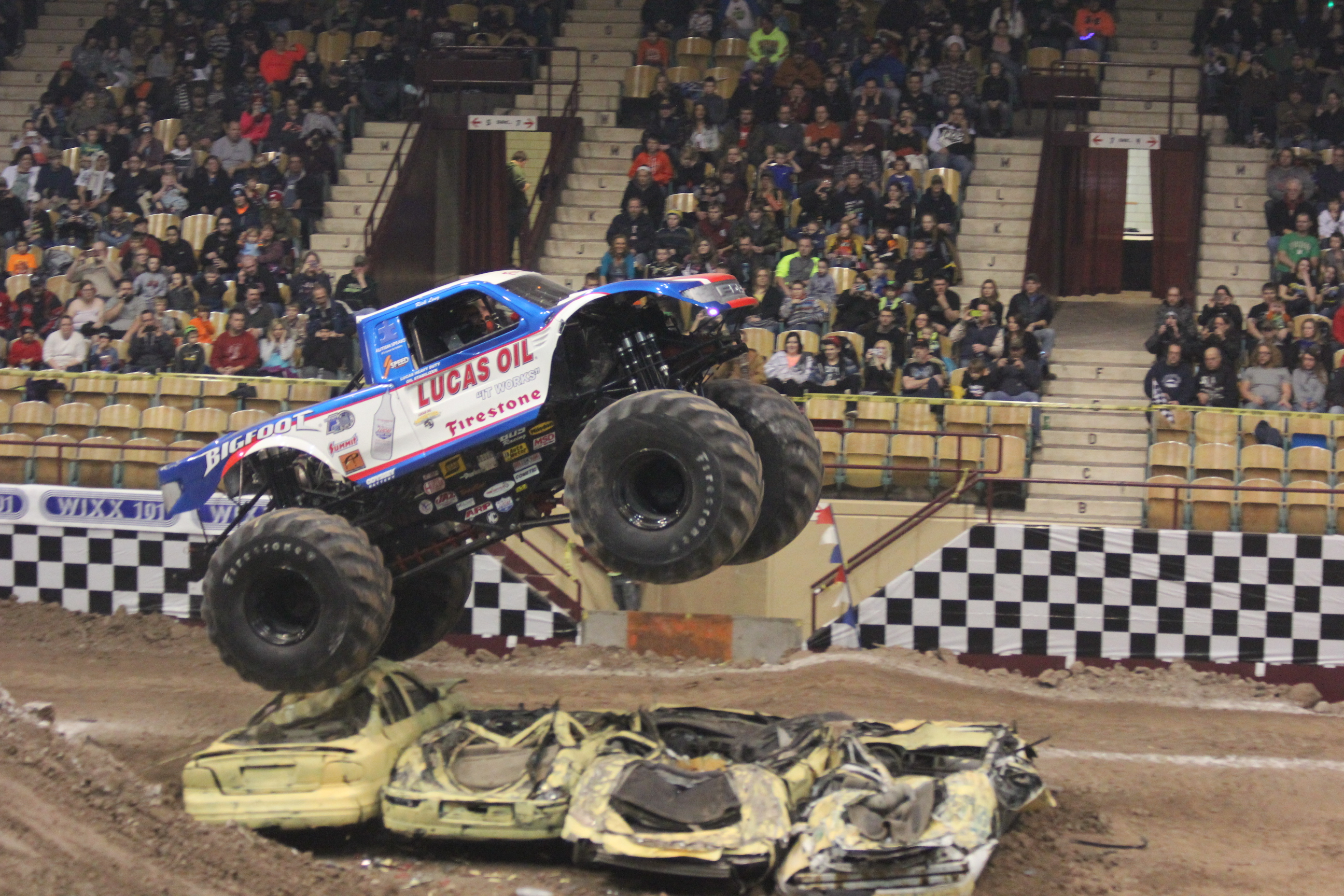 The monster truck Bigfoot (#15) on jumping at the Brown County Veterans Memorial Arena during the Monster XL tour event.